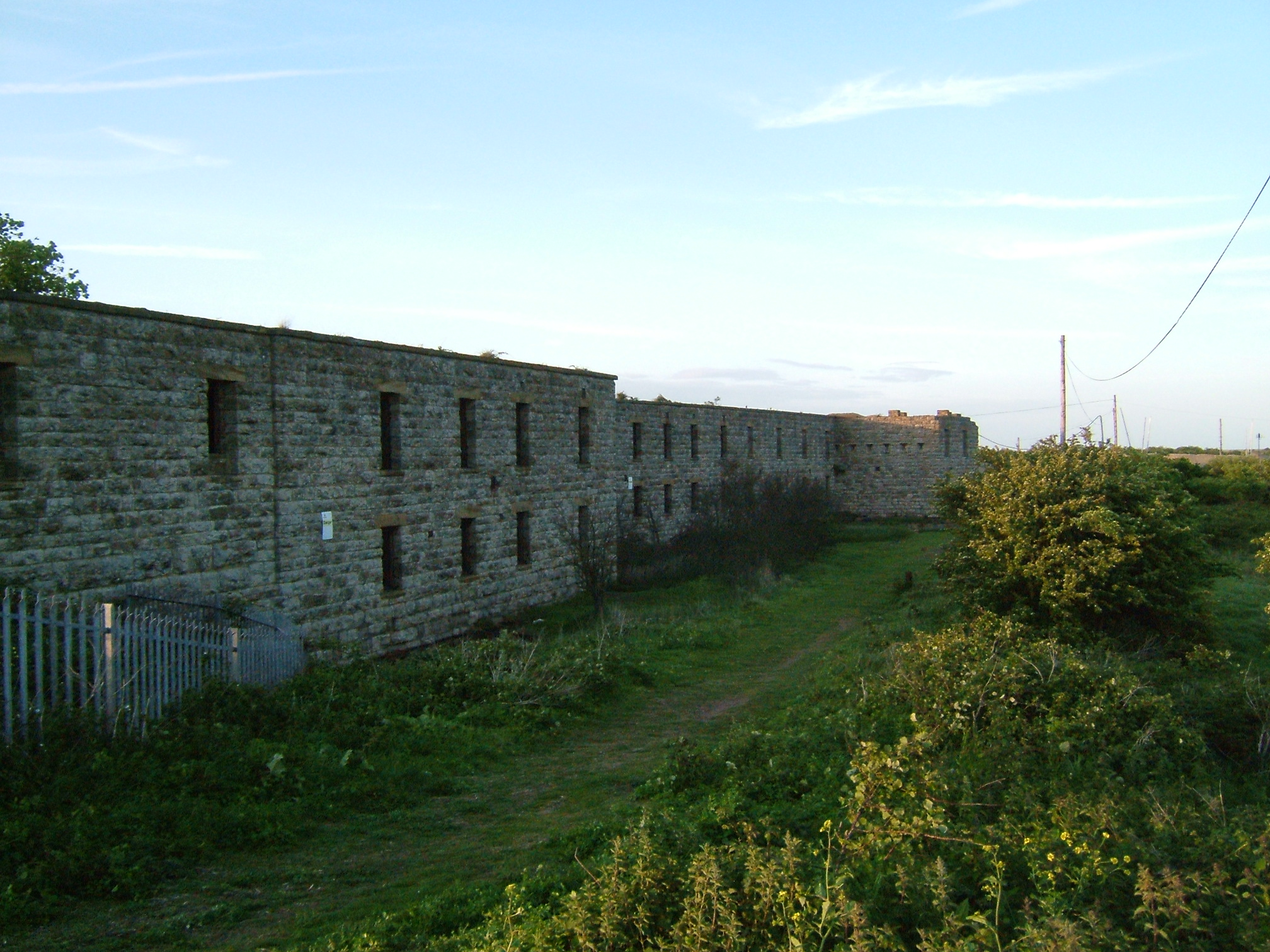 Cliffe Fort is a Napoleonic Fort built TQ 708767 as part of the defences of Chatham Dockyard. It is on the Thames Estuary, on The Lower Hope. Behind it are the Cliffe Pools, which are still used for mineral extraction.